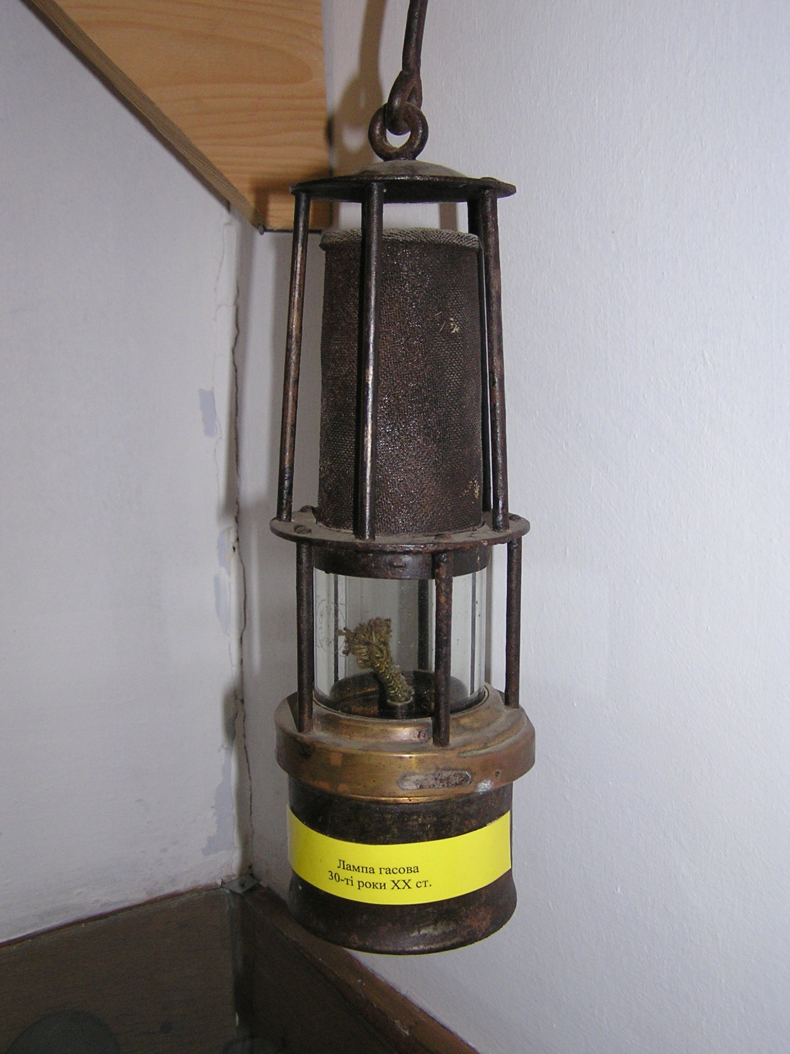 History museum of Truskavets History museum of Truskavets Native nameМузей истории г. ТрускавецLocationTruskavetsCoordinates49° 16′ 39.50″ N, 23° 30′ 23.96″ E